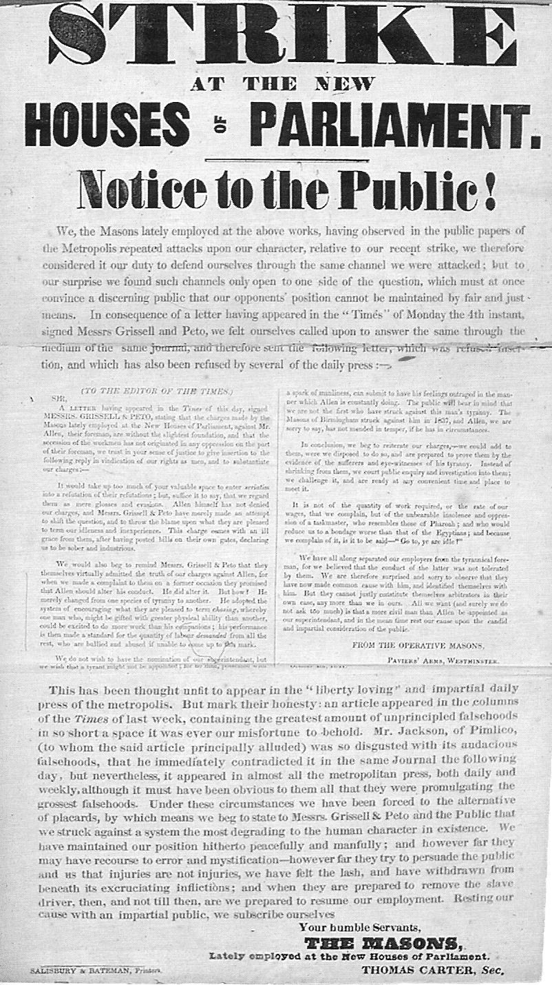 Notice issued by the Operative Stonemasons Society regarding their Strike at the new House of Commons.